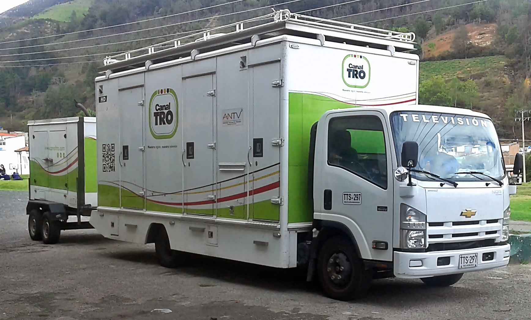 Canal TRO Truck of Chevrolet NQR Reward, Isuzu technology